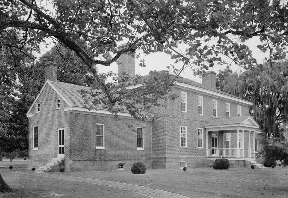 Ditchley, State Route 607, Ditchley (Northumberland County, Virginia) cropped HABS VA,67-DITCH,1-3 This file comes from the Historic American Buildings Survey (HABS), Historic American Engineering Record (HAER) or Historic American Landscapes Survey (HALS). These are programs of the National Park Service established for the purpose of documenting historic places. Records consist of measured drawings, archival photographs, and written reports. When reusing please credit: Library of Congress, Prints & Photographs Division, VA-308 This tag does not indicate the copyright status of the attached work. A normal copyright tag is still required. See Commons:Licensing for more information. This work is in the public domain in the United States because it is a work prepared by an officer or employee of the United States Government as part of that person’s official duties under the terms of Title 17, Chapter 1, Section 105 of the US Code. See Copyright. Note: This only applies to original works of the Federal Government and not to the work of any individual U.S. state, territory, commonwealth, county, municipality, or any other subdivision. This template also does not apply to postage stamp designs published by the United States Postal Service since 1978. (See § 313.6(C)(1) of Compendium of U.S. Copyright Office Practices). It also does not apply to certain US coins; see The US Mint Terms of Use. This file has been identified as being free of known restrictions under copyright law, including all related and neighboring rights.